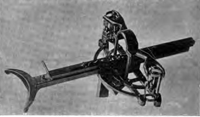 The cheiroballistra or manuballista is a Roman one-man handheld weapon for throwing darts or bolts. The actual appearance is conjectural, this is one suggestion.